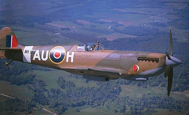 Canadian Spitfire 9LF